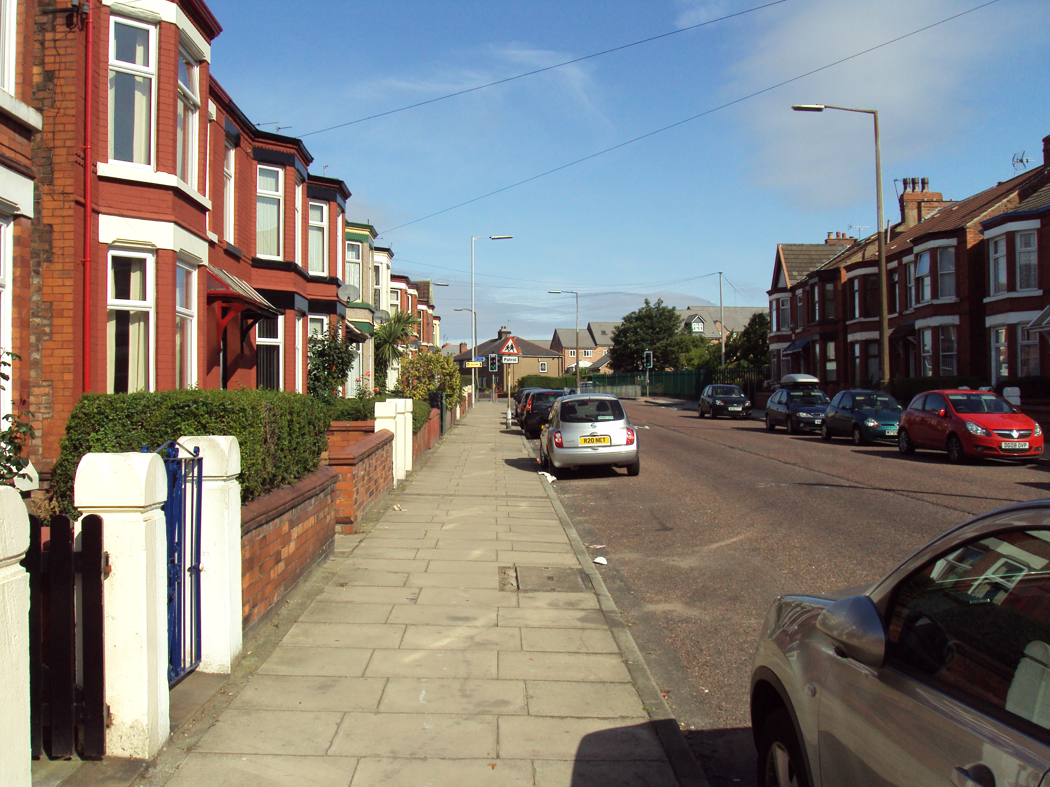 Oxton Road, Wallasey, Wirral, England.